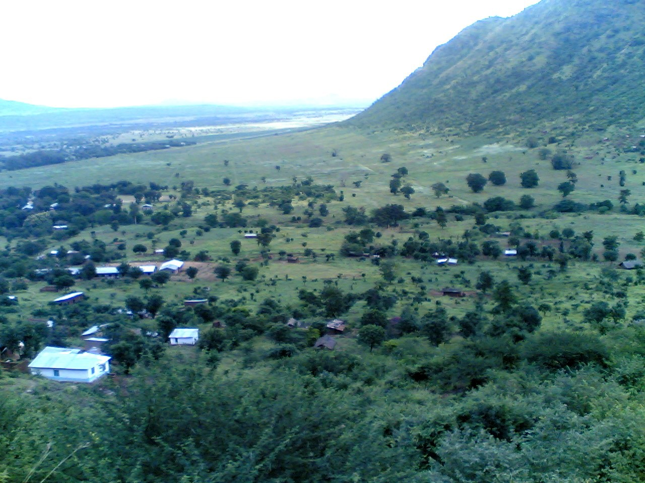 Image taken from Mombo-Soni Road while ascending the Usambara Mountains in Tanga Region, Tanzania.